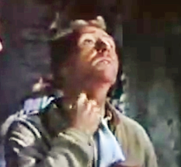 Frank Faylen in trailer for "Hangman's Knot" (1952)